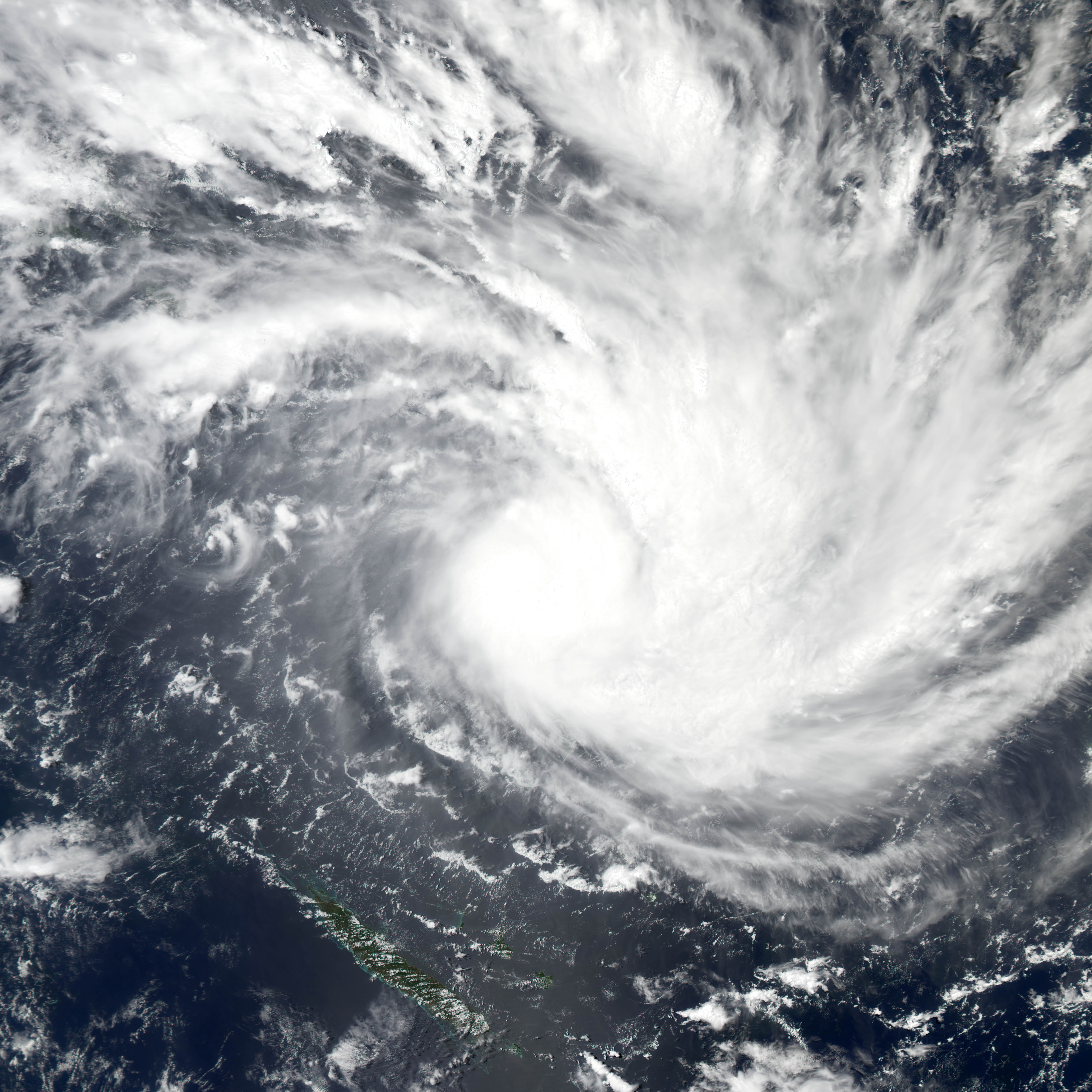 On February 25, Tropical Cyclone Ivy was continuing to gather strength and generate rough seas. In this image Ivy was located about 450 kilometers north of Port Vila, the capital of Vanuatu, and was moving west-southwest at six knots. The cyclone had maximum sustained winds of 75 knots and gusts to 90 knots and was intensifying.